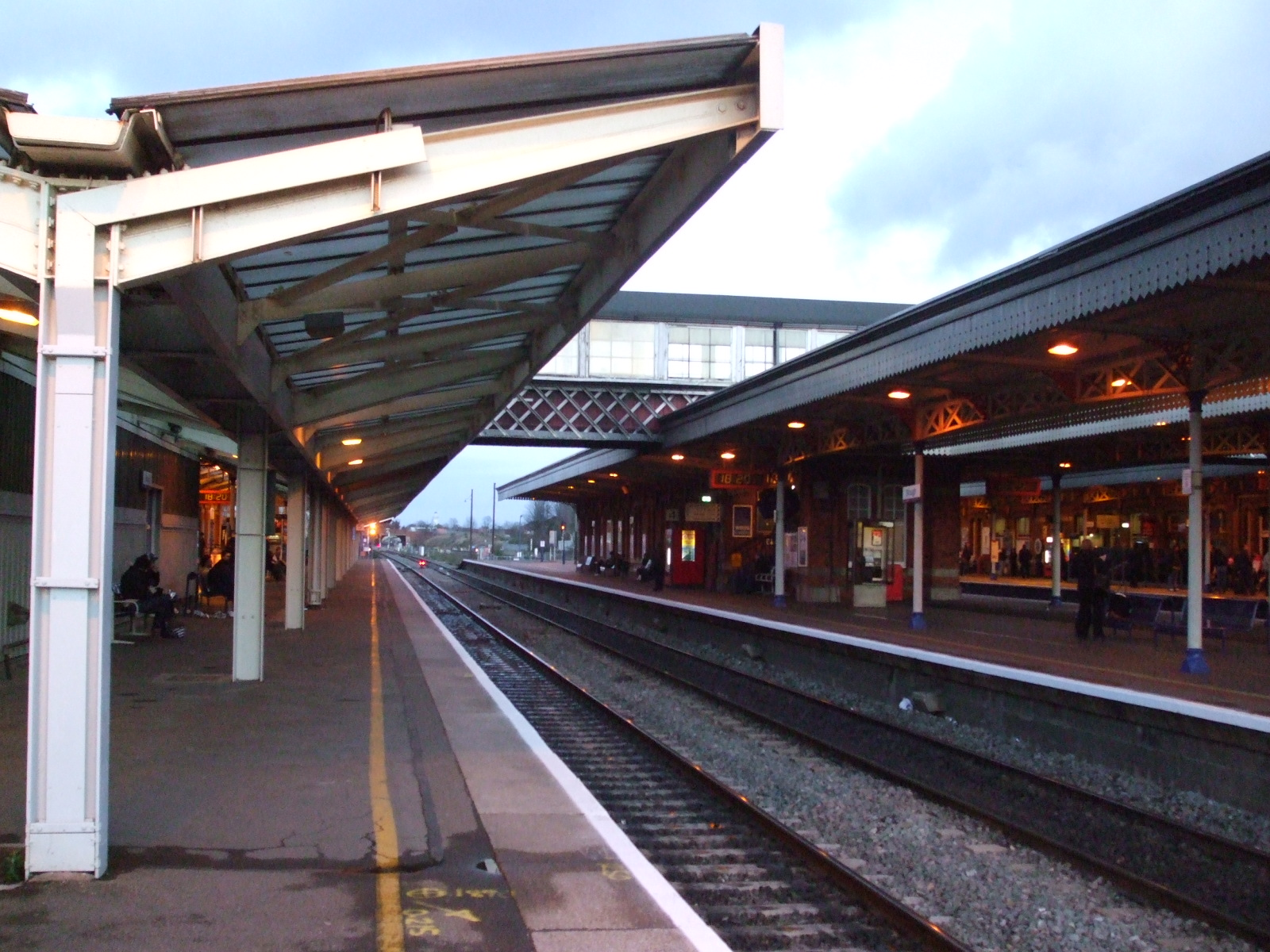 Slough station looking eastwards from slow platforms